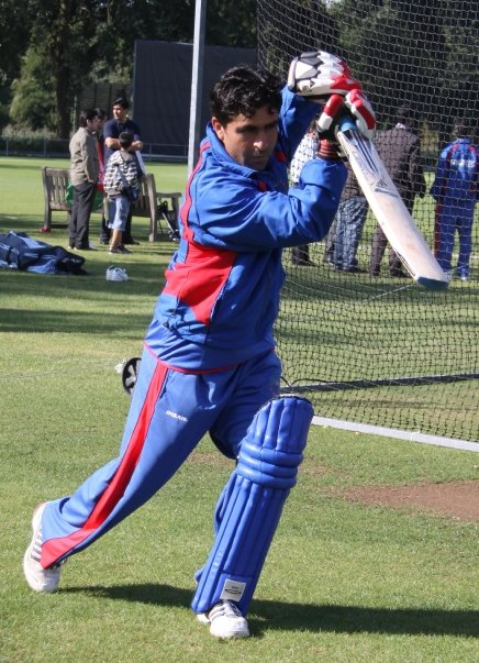 Hasti Gul in the nets